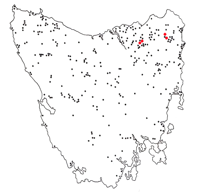 Map with all (probably) occurred thylacine sightings in Tasmania between 1936 and 1980, originally created by Steven Smith (1981), black = 1 sighting, red = 5 sightings